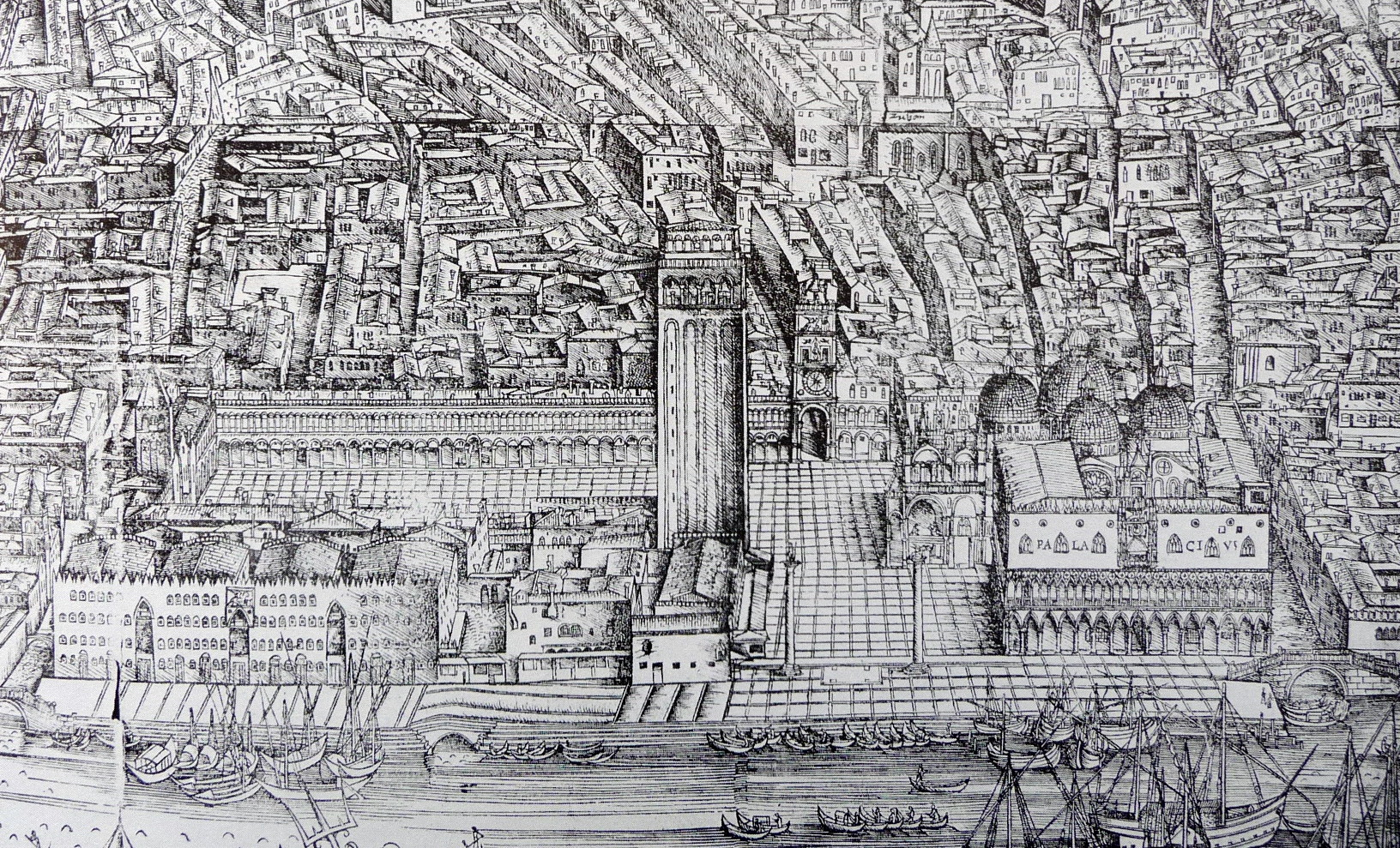 Printer: , Nürnberg